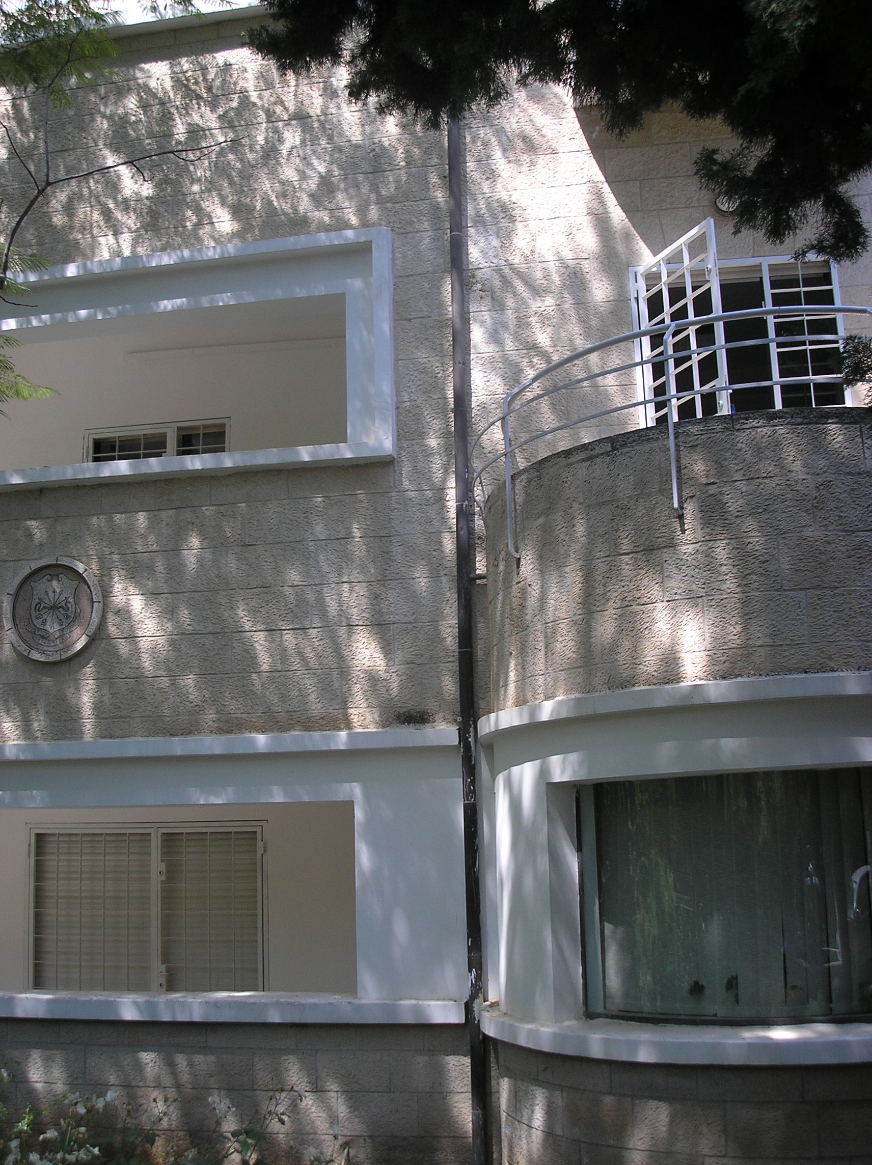 Beit Hashimshony, Rehavia, Jerusalem